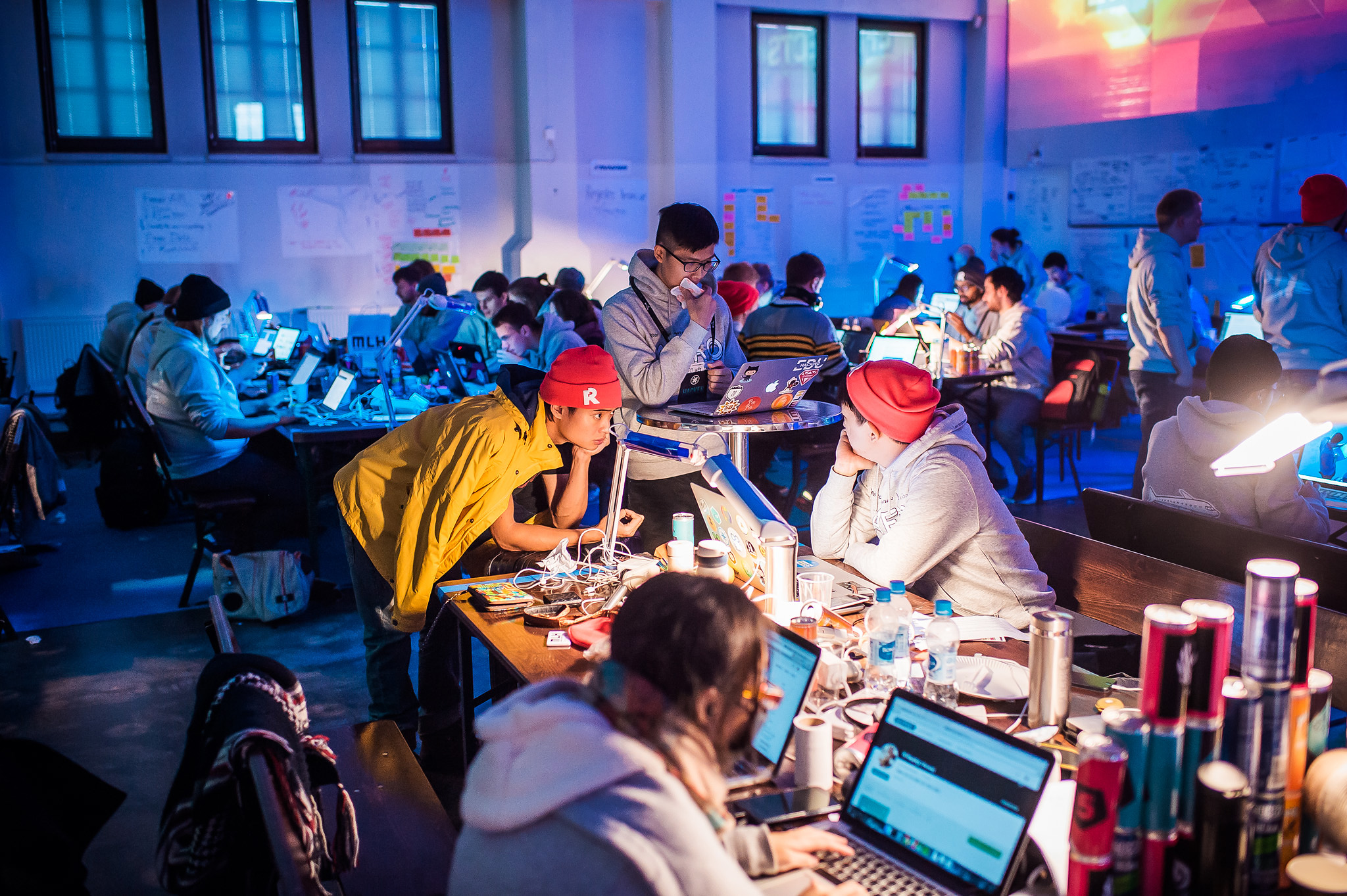 Hackers at Junction 2015